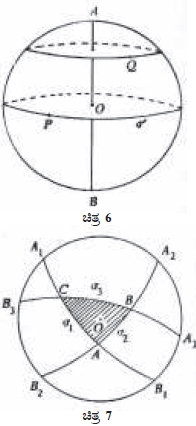 diagrams